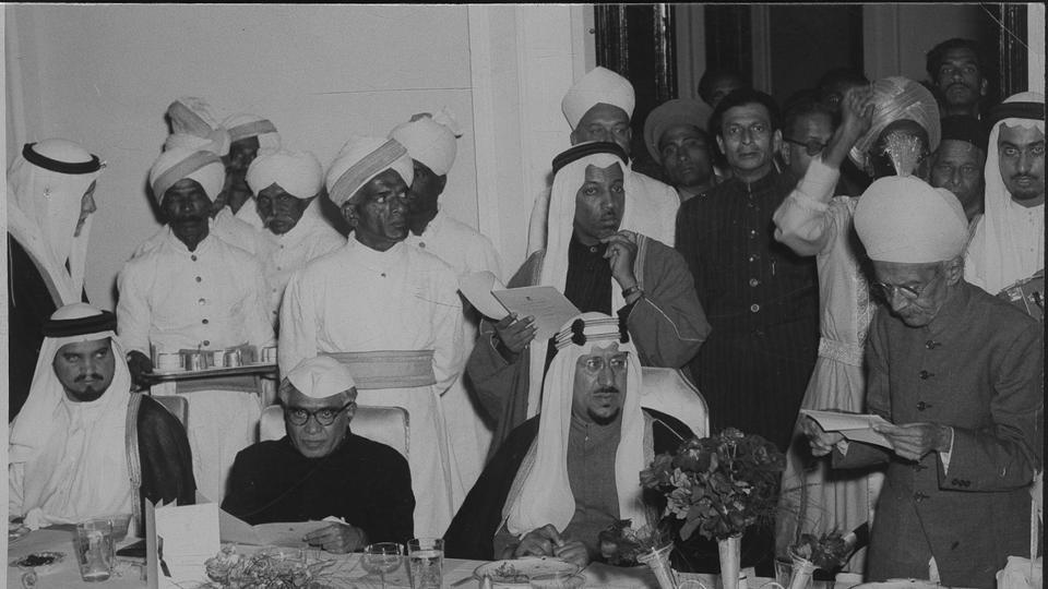 Nizam of Hyderabad with King Saud